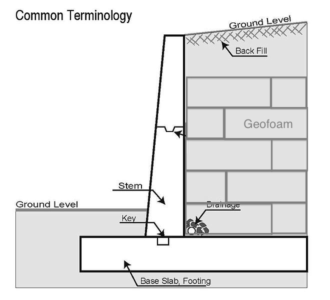 Author, Kapil chaudhary. Created using Adobe Illustrator